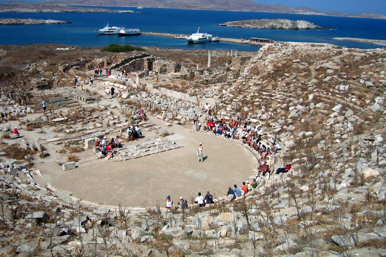 Built in 300 BC to hold 5,500 spectators, this preserved marble theatre replaced an earlier wood theater sited in a natural ampitheatre. The upper (epitheatron) and the lower part of the theatre, which are separated by the diazoma, are not concentric. The first row of seats, which is for the privileged, is followed by twenty-six stone tiers in the lower part and seventeen more in the epitheatron, divided by eight stairways into seven cunei, that could accommodate about 5.500 spectators. In front of the round orchestra, the remains of the stage-building (skene) are to be seen. On its west side, a huge, vaulted cistern collected rainwater draining from the theatre and supplied part of town.